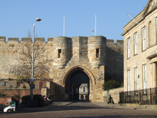 Lincoln Castle, Lincoln The site was occupied during Roman times. By Norman times, Lincoln was the third city of the realm in prosperity and importance. In 1068, two years after the Battle of Hastings, William the Conqueror began building the castle, which was used as a court and prison. Executions took place there.